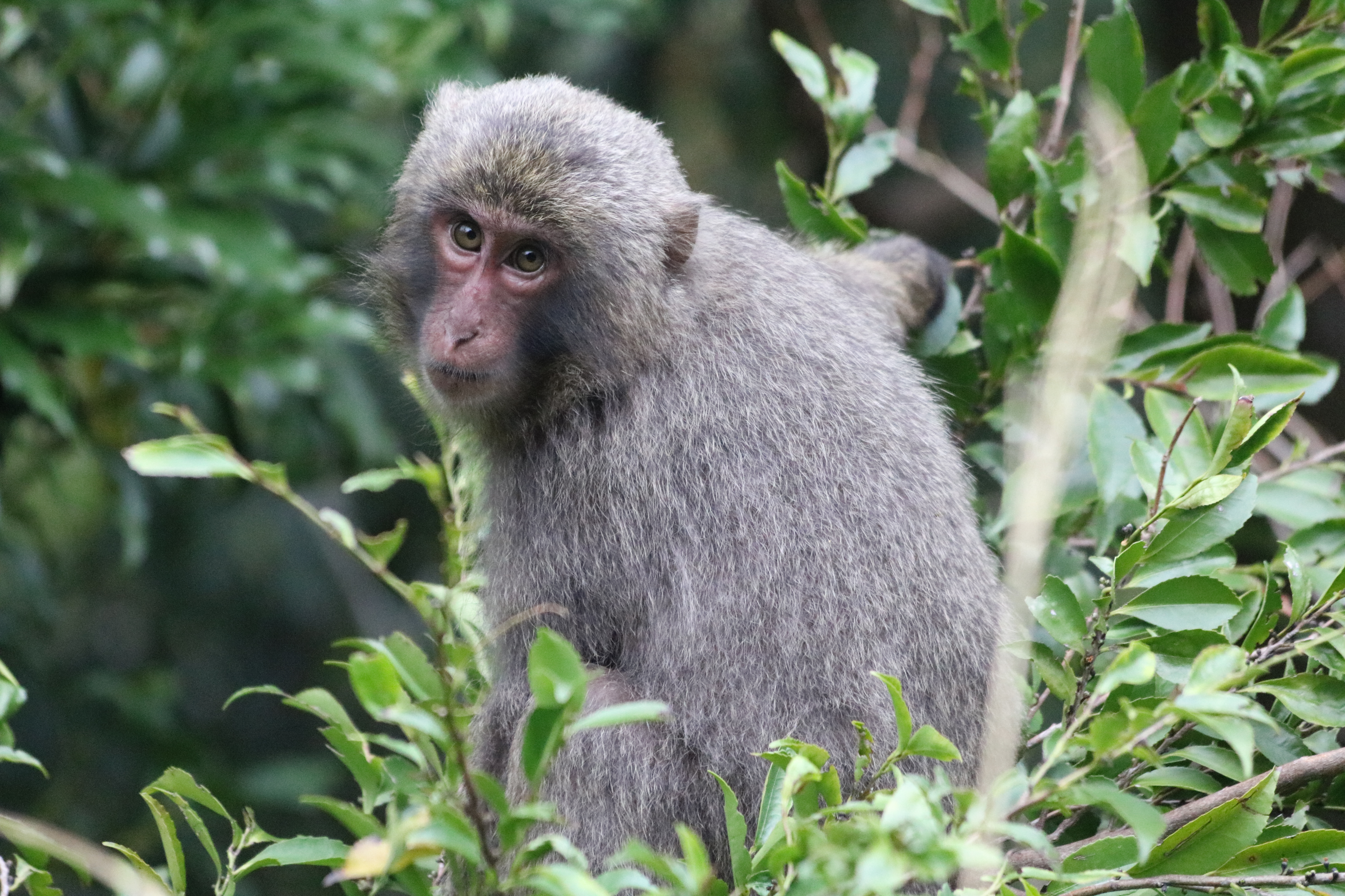 A Yakushima macaque, Macaca fuscata yakui, perched on a branch by the side of Route 592.